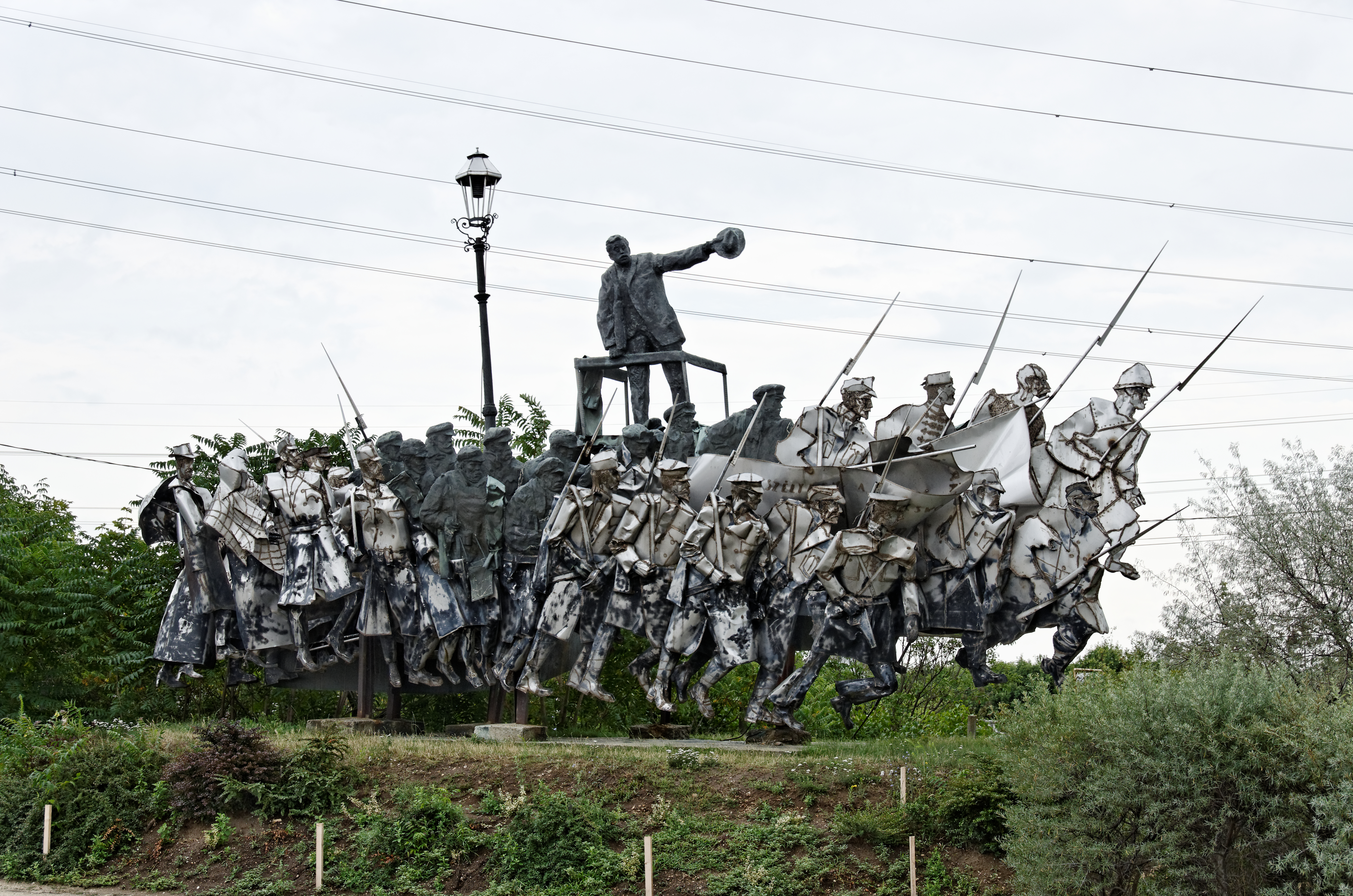 Béla Kun memorial. Memento park, Budapest. Sculpture of Imre Varga